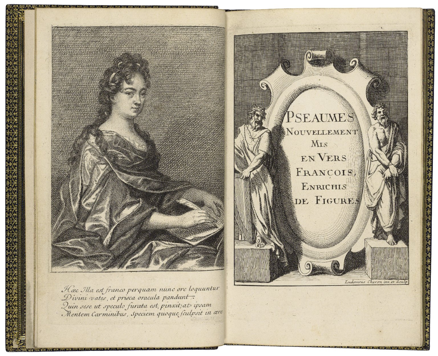 The frontis and title page of a 1694 edition of Élizabeth Sophie Chéron's translations of the psalms into French.